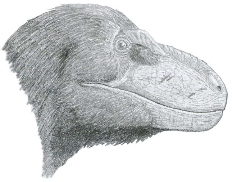 Nanuqsaurus hoglundi portrait by Tom Parker.